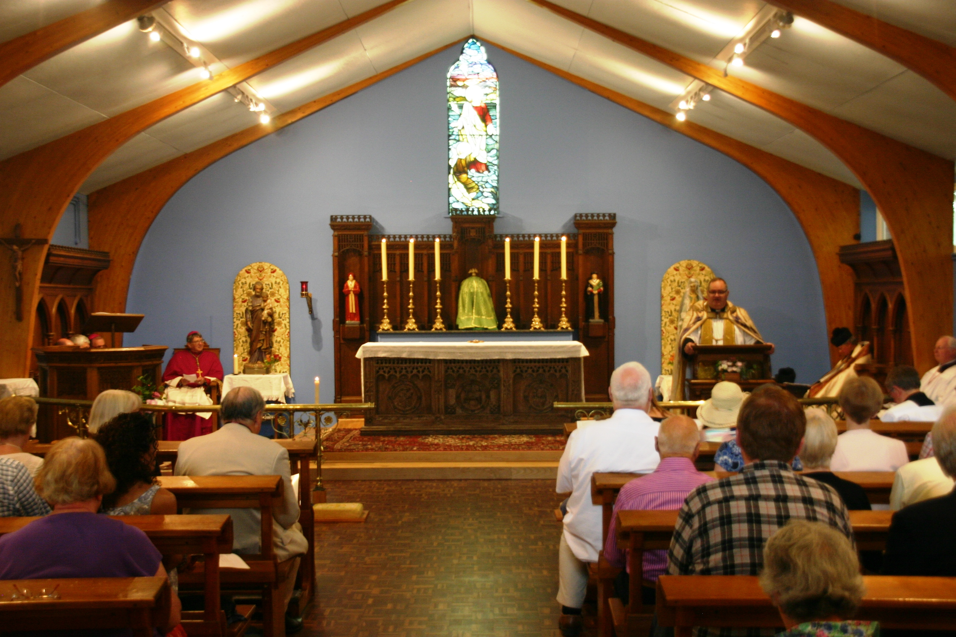 Interior of church and main altar